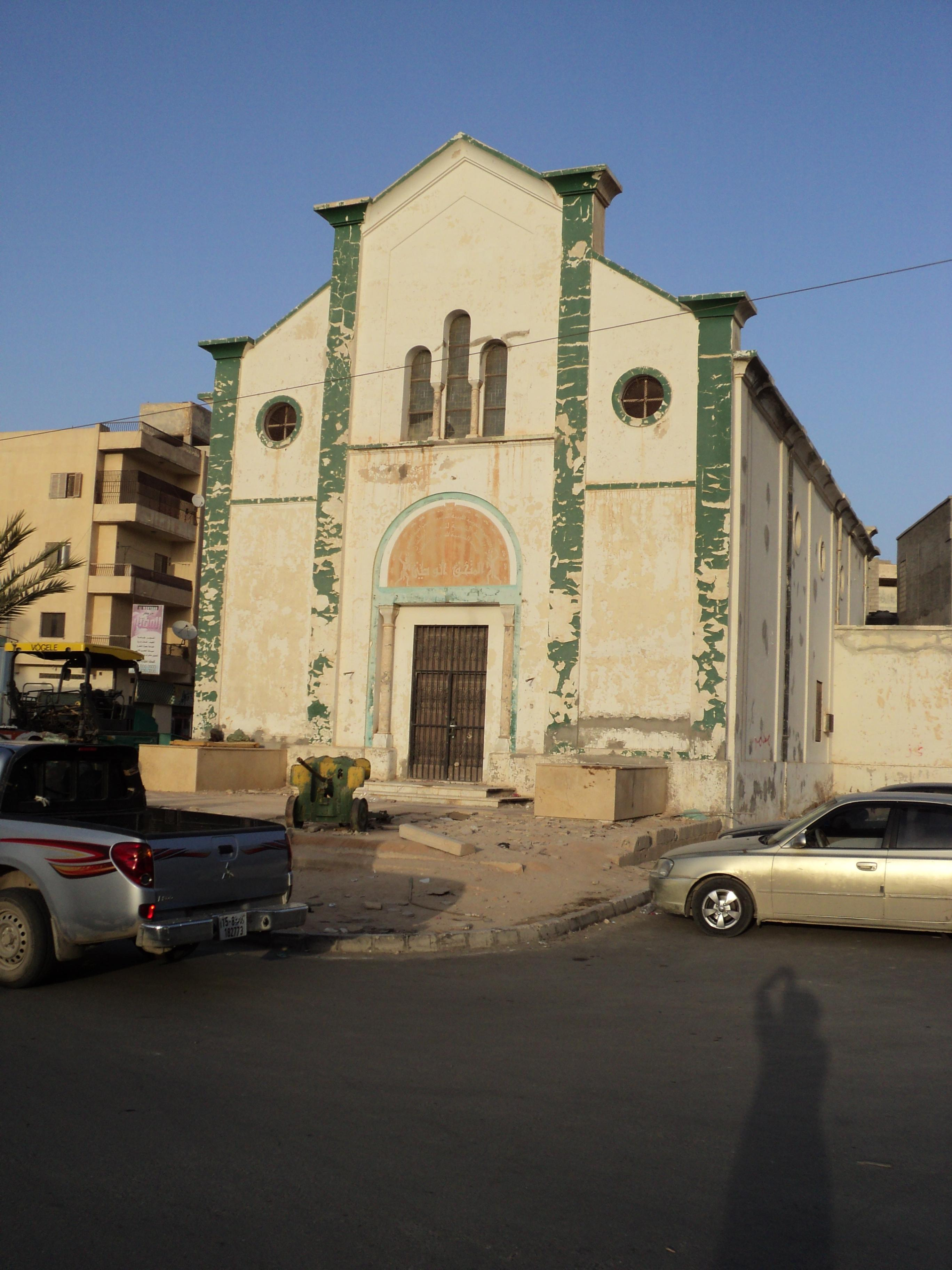 National museum, Tobruk-Libya.